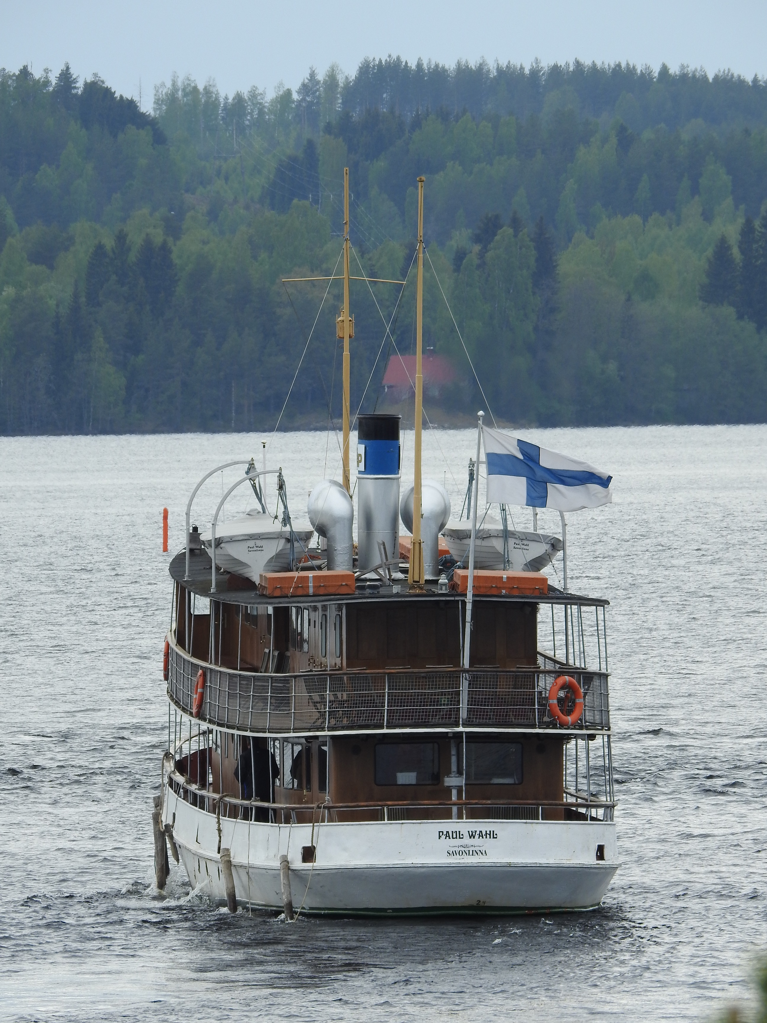 S/S Paul Wahl (Pihlajavesi)